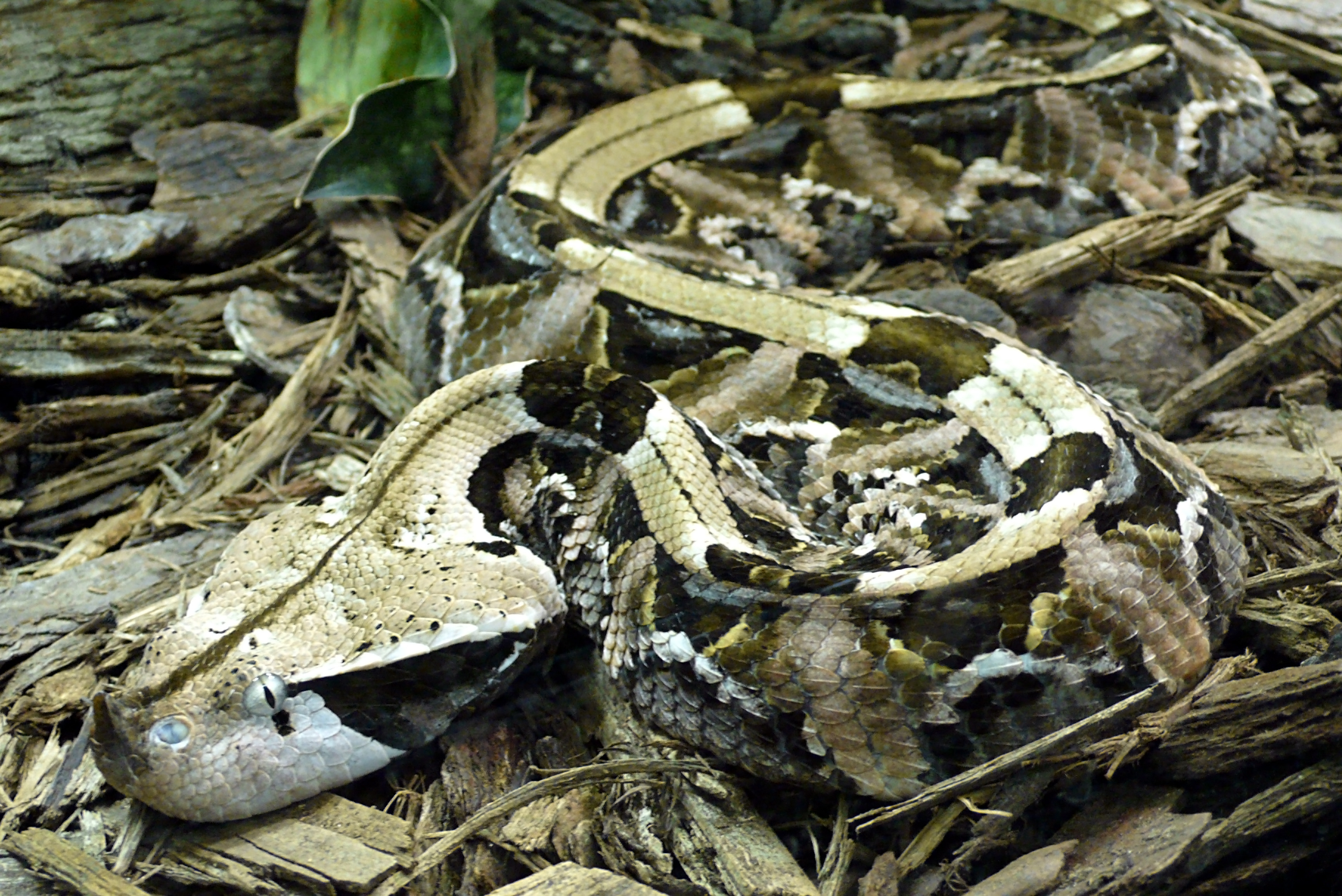 West African Gaboon Viper (Bitis gabonica rhinoceros)